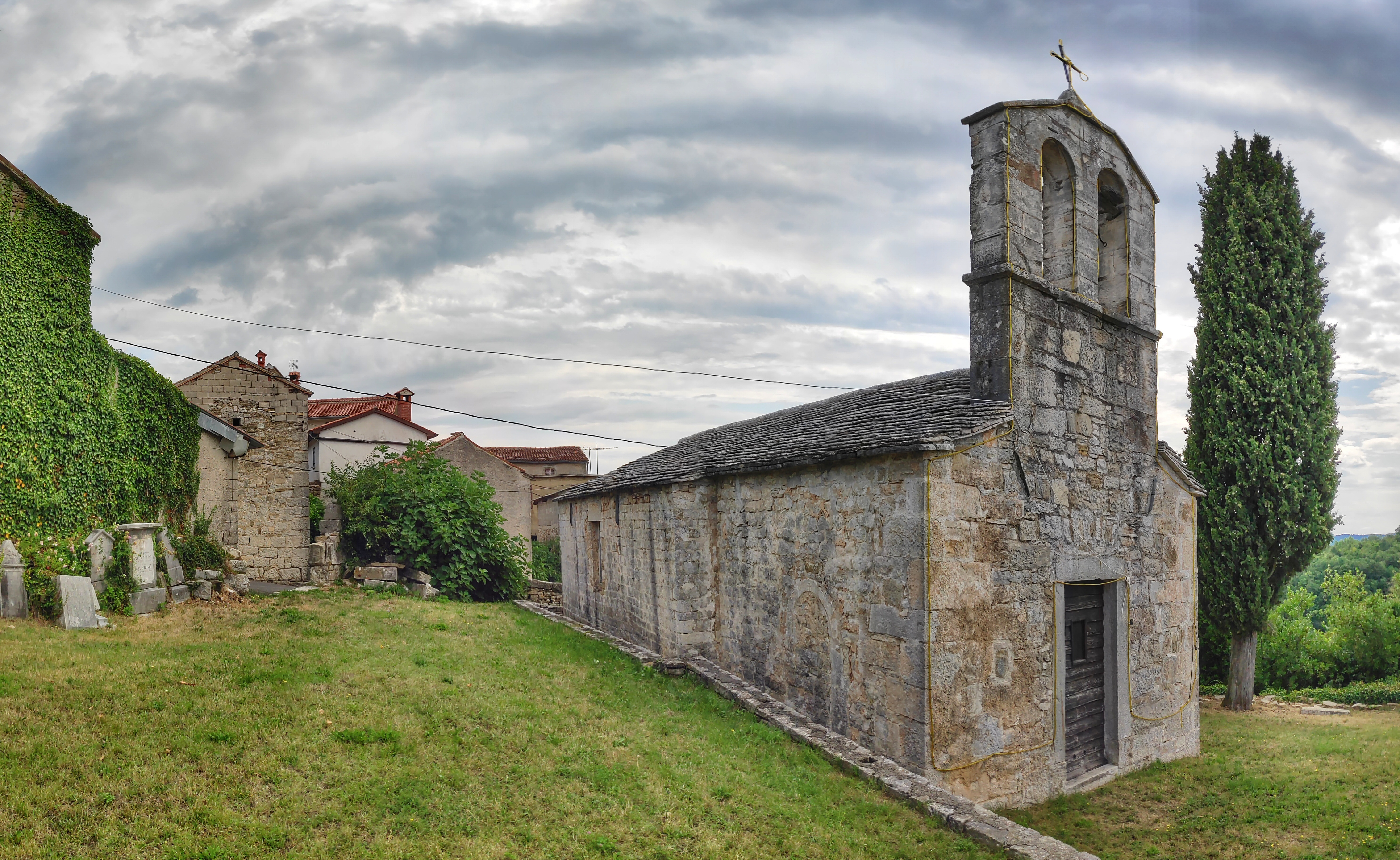 Trviž cemetery